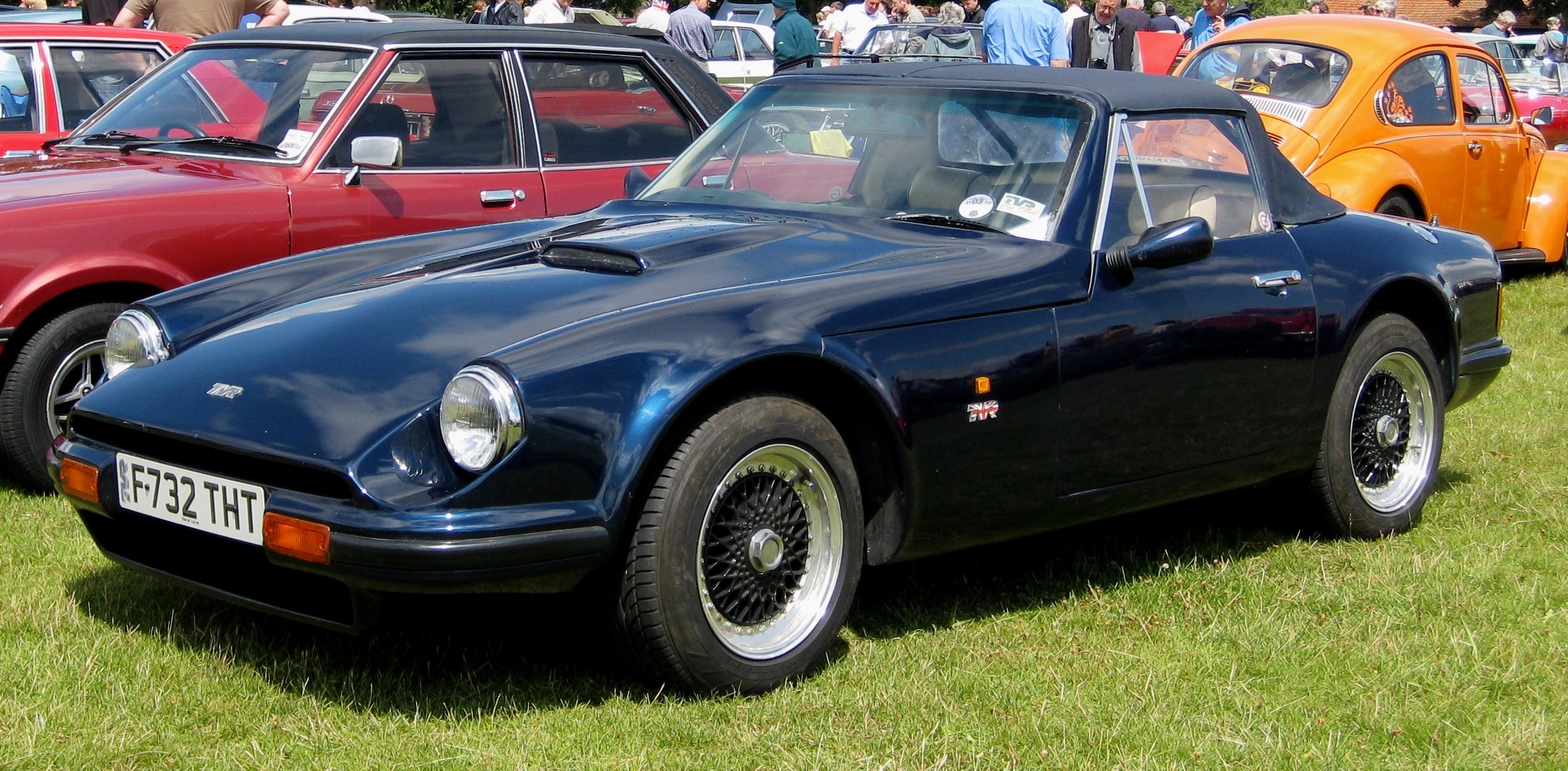 TVR S series cabriolet 1988